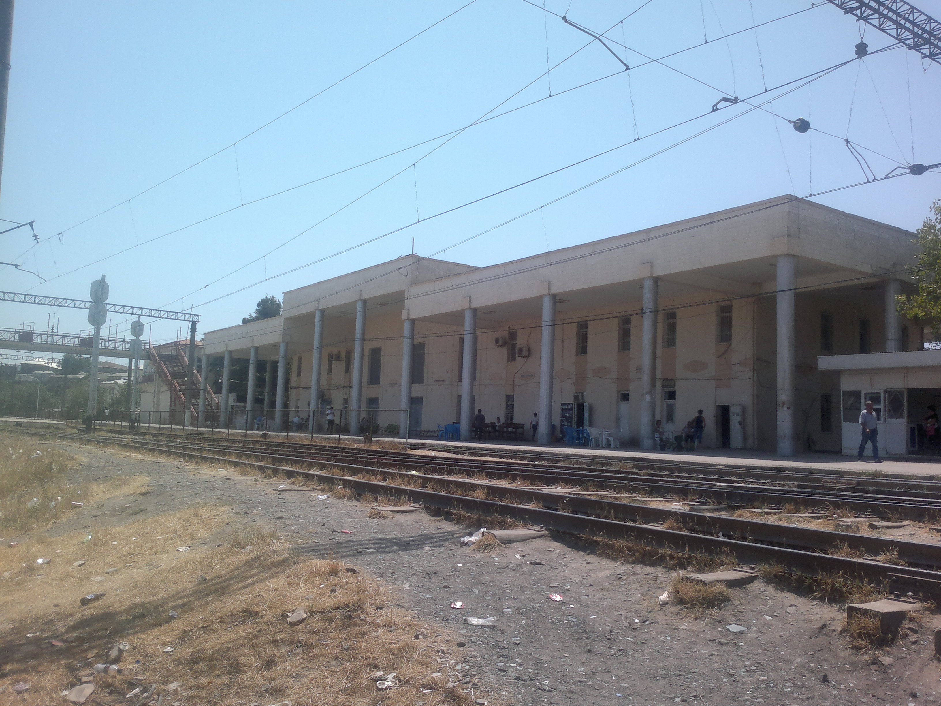 Building of train station in Sabunchu settlement of Baku